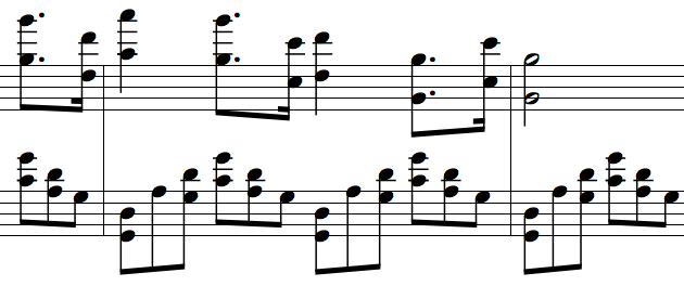 Piano Concerto No. 2 by Sergei Prokofiev, First movement theme